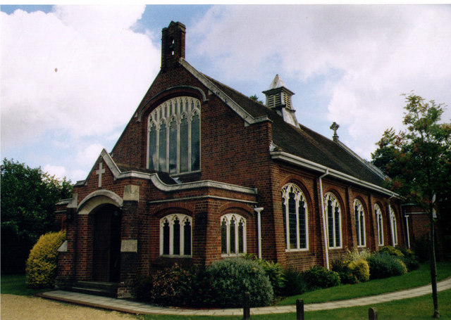 Church of England parish church of St Barnabas, Emmer Green, Reading, Berkshire. Built in 1924.